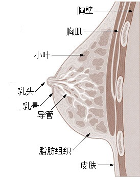 Drawing of a cross section of the breast of a human female.